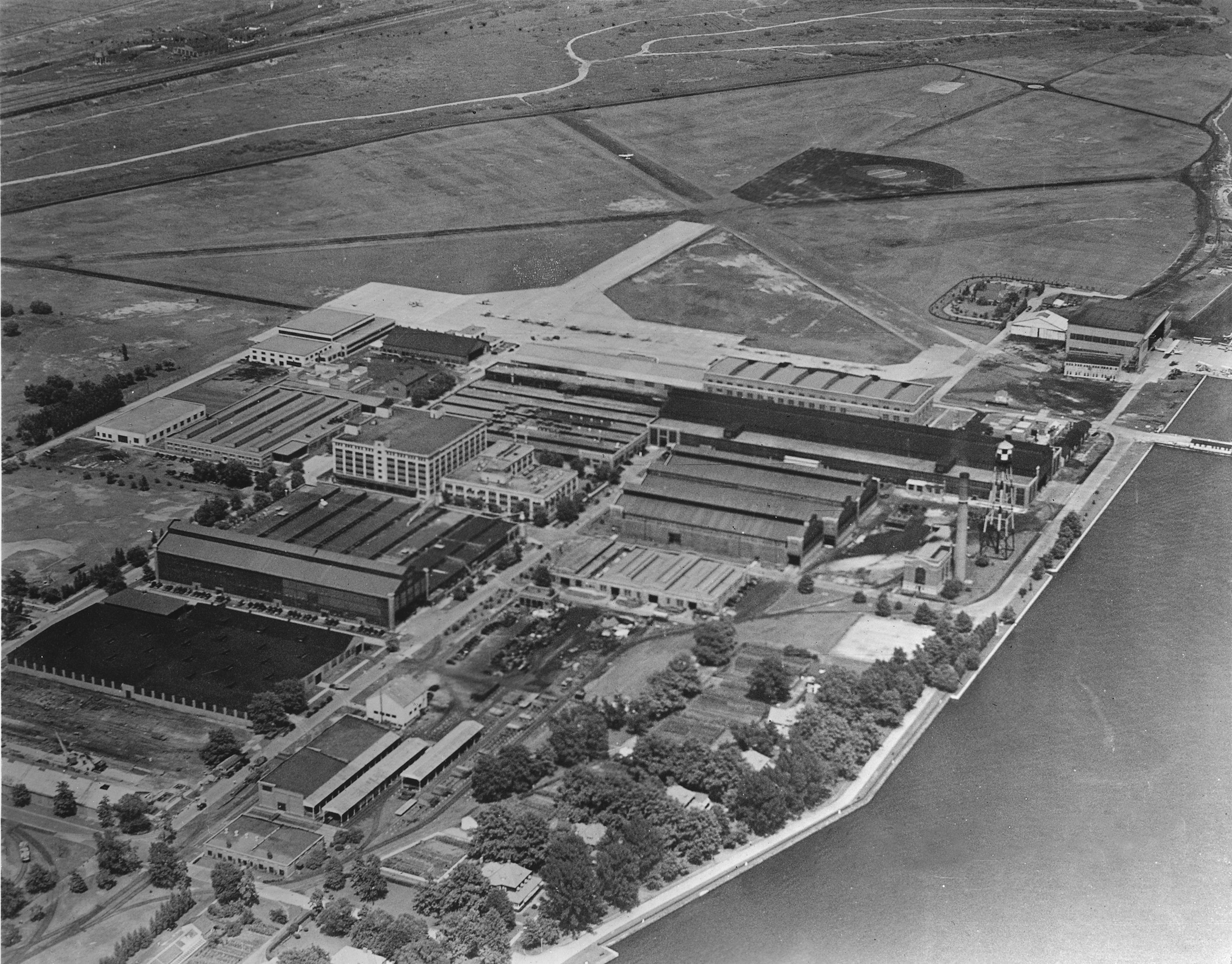 Aerial view of the U.S. Navy Naval Aircraft Factory at Philadelphia, Pennsylvania (USA). Note: the flying boat in front ot the hangar on the right seems to be a Consolidatded P2Y which would date this photo in the 1930s.